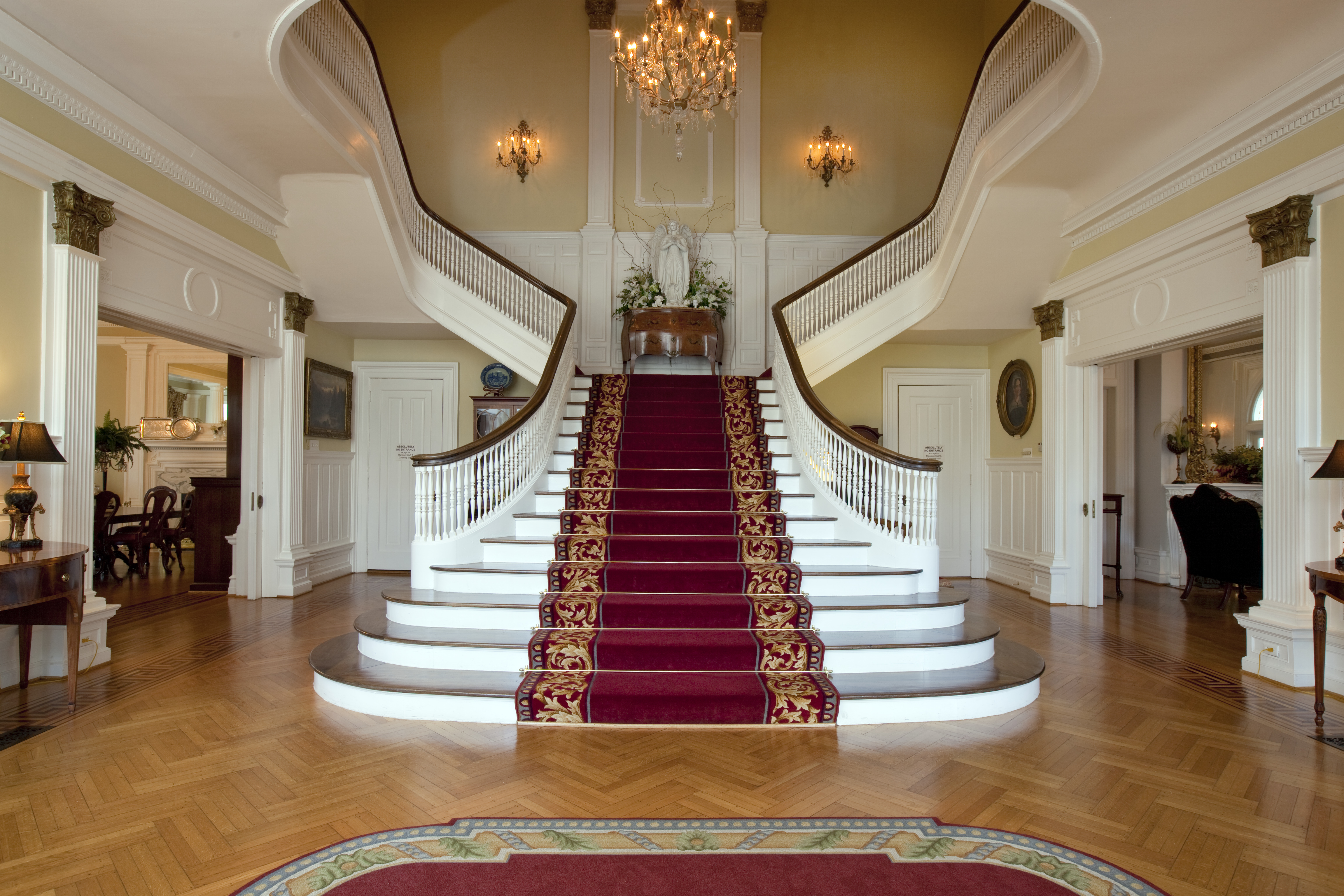 Staircase of the Governor's Mansion, Montgomery, Alabama